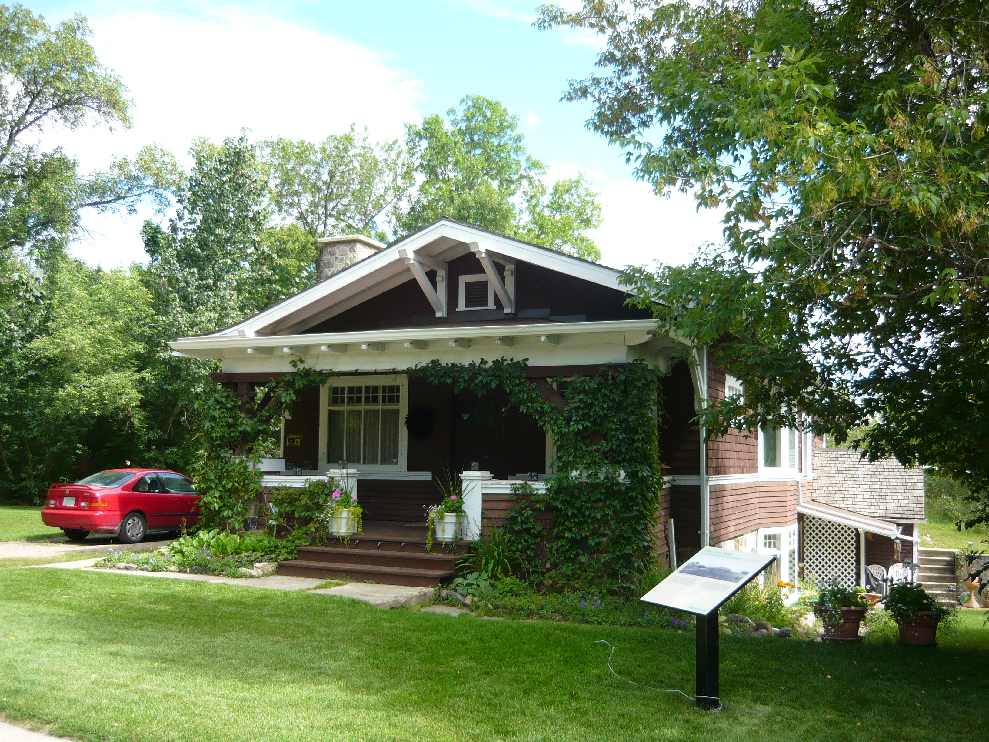 Bowerman House, 1328 Avenue K South, Saskatoon, Saskatchewan, Canada. Municipal Heritage Property. Built in 1907 to be used as a hunting lodge for Allan Bowerman. For many years, the house was the superintendent's residence for the now-defunct Saskatoon Sanatorium. Architect: Walter William LaChance.